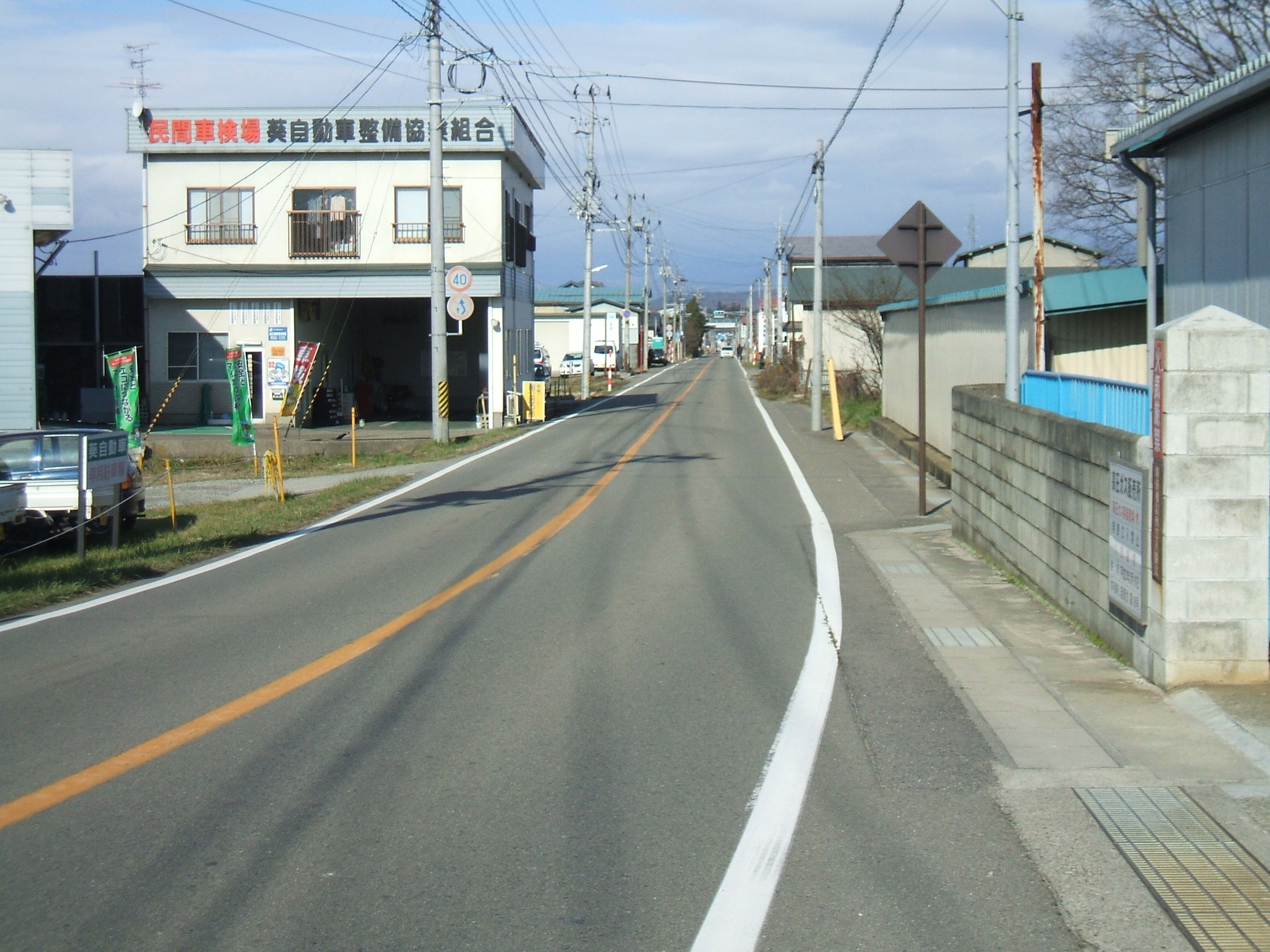 A Landscape of Fukushima prefectural road, route 69. This is taken at Machikita-town of Aizuwakamatsu.